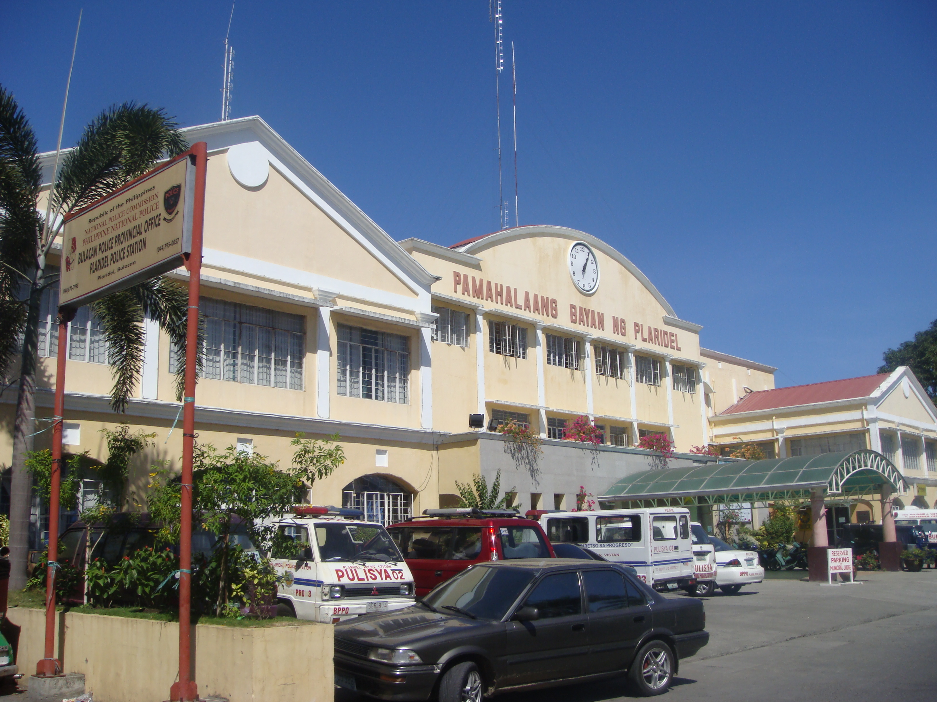 Municipal Hall of Plaridel (Poblacion), Bulacan